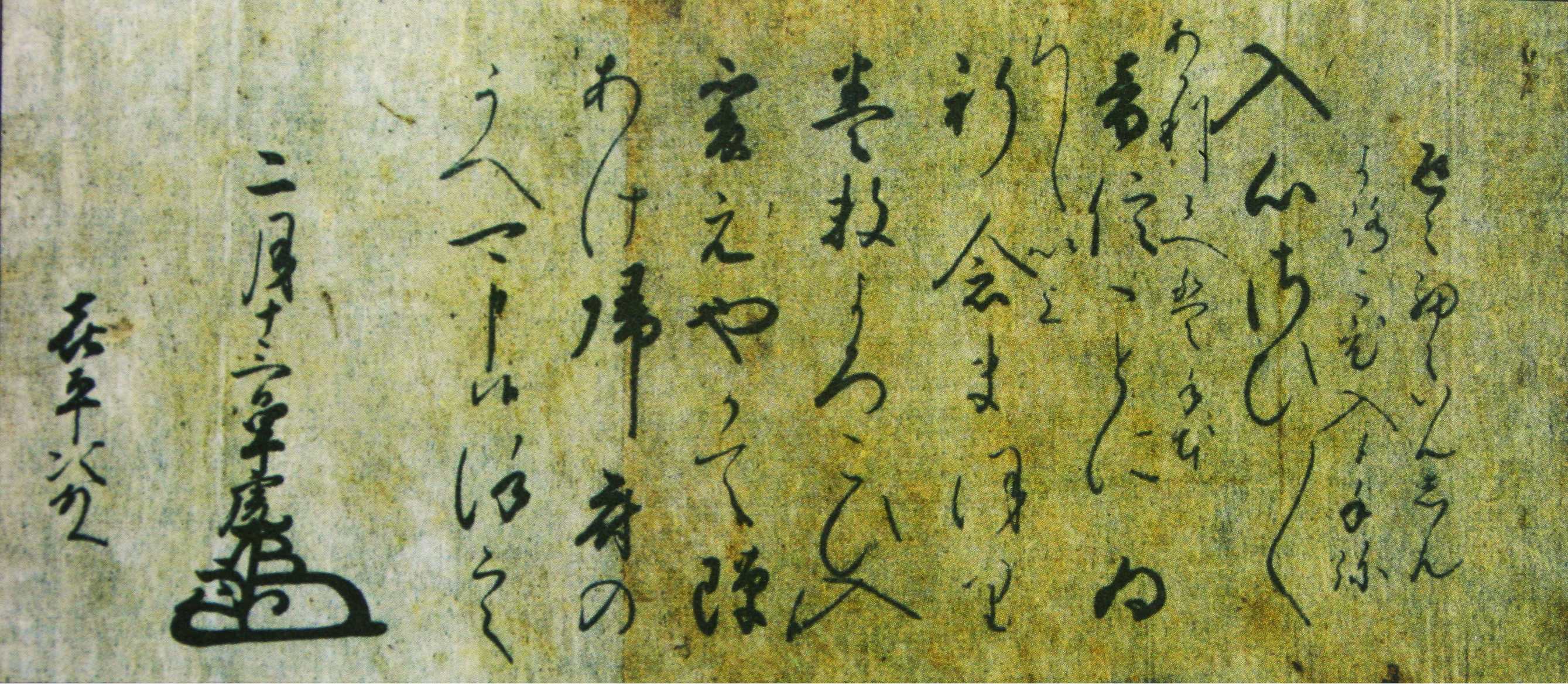 Letter from Uesugi Kenshin to Uesugi Kagekatsu, delivering his regard to the latter.